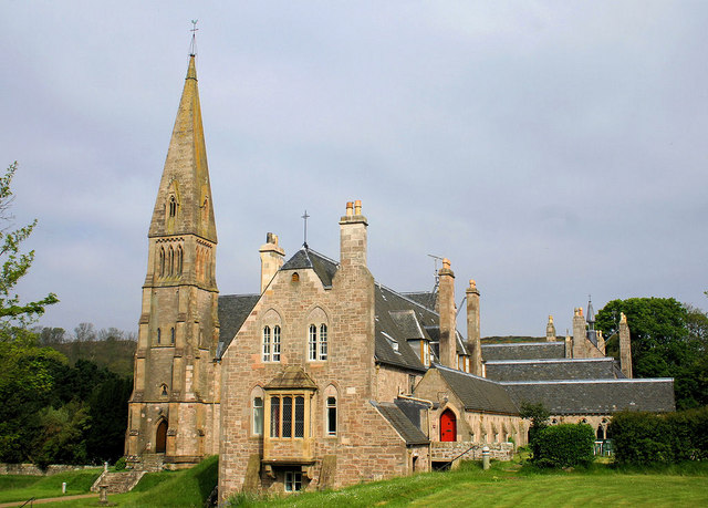 Cumbrae, Cathedral of the Isles. The smallest Cathedral in Western Europe.